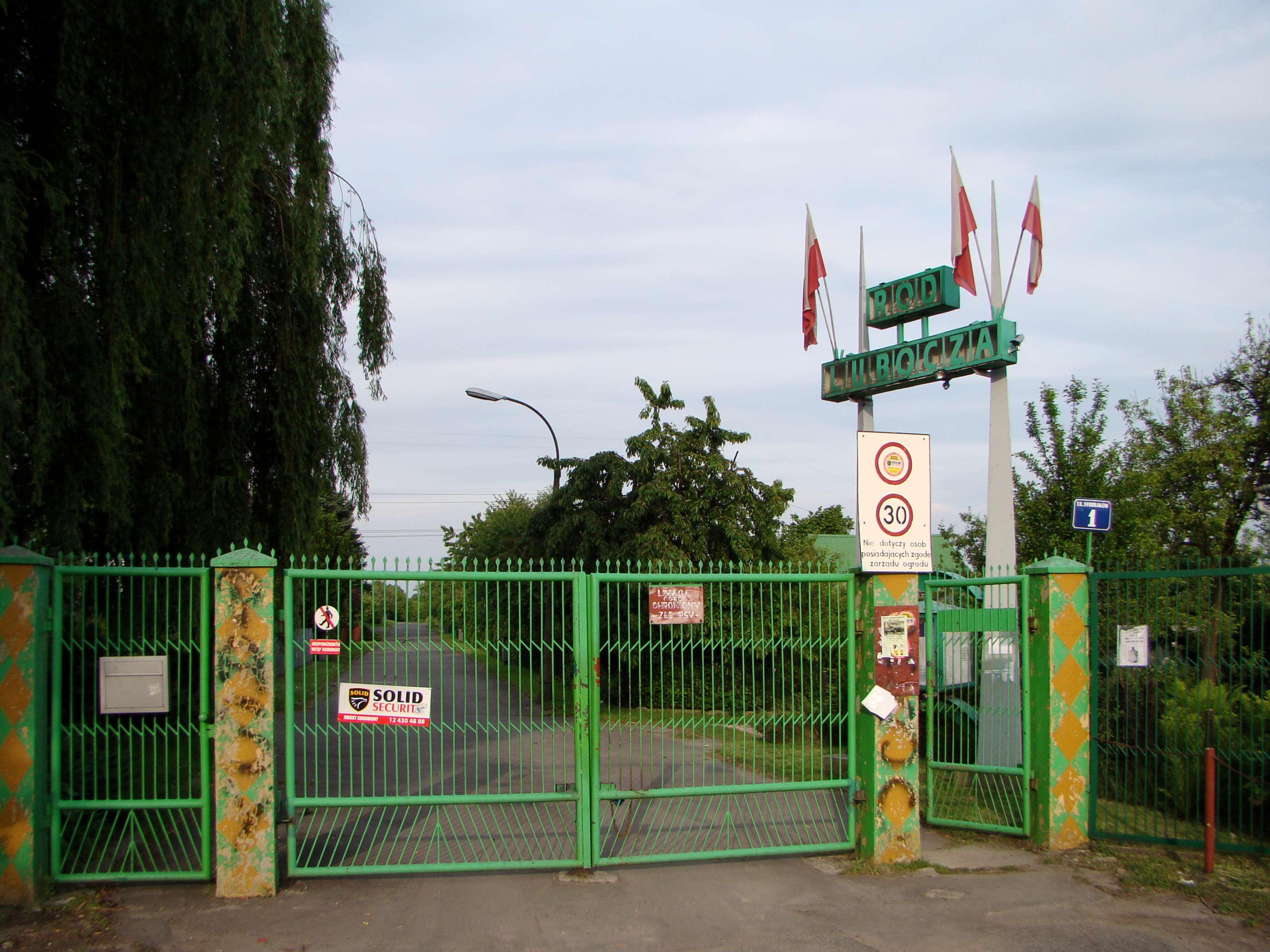 Kraków - Allotments "Lubocza" in Lubocza